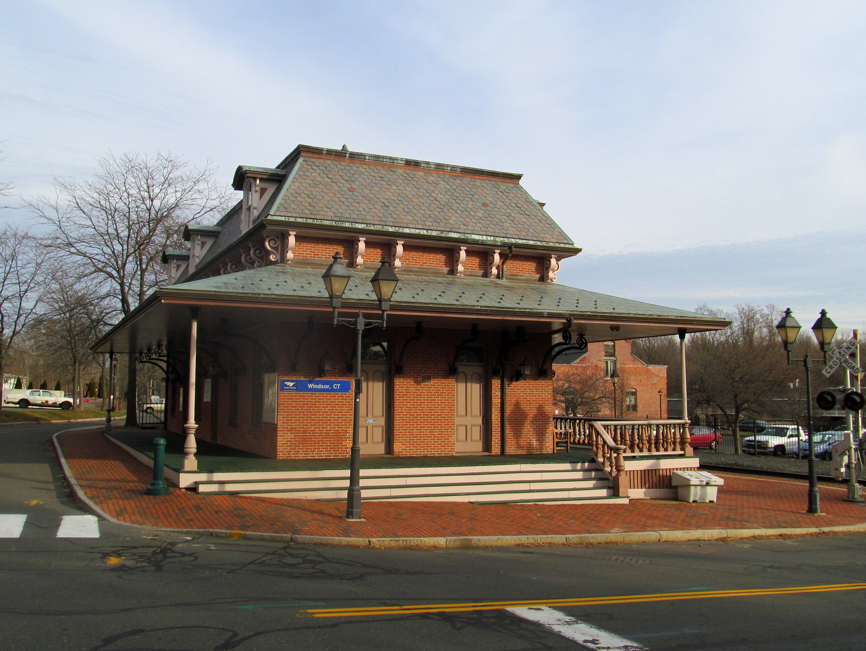 Windsor station in January 2015